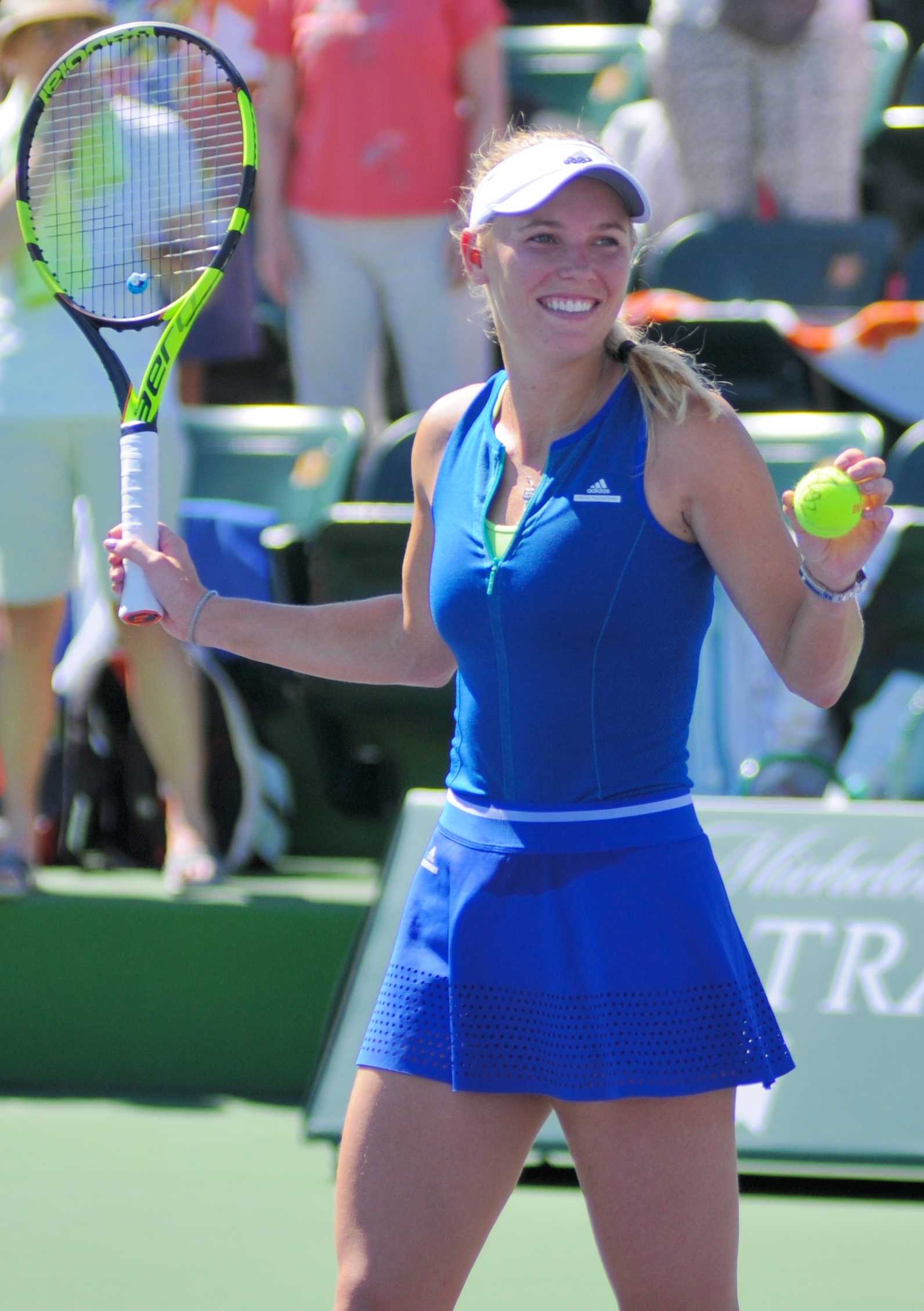 Caroline Wozniacki, 2017 BNP Paribas Open